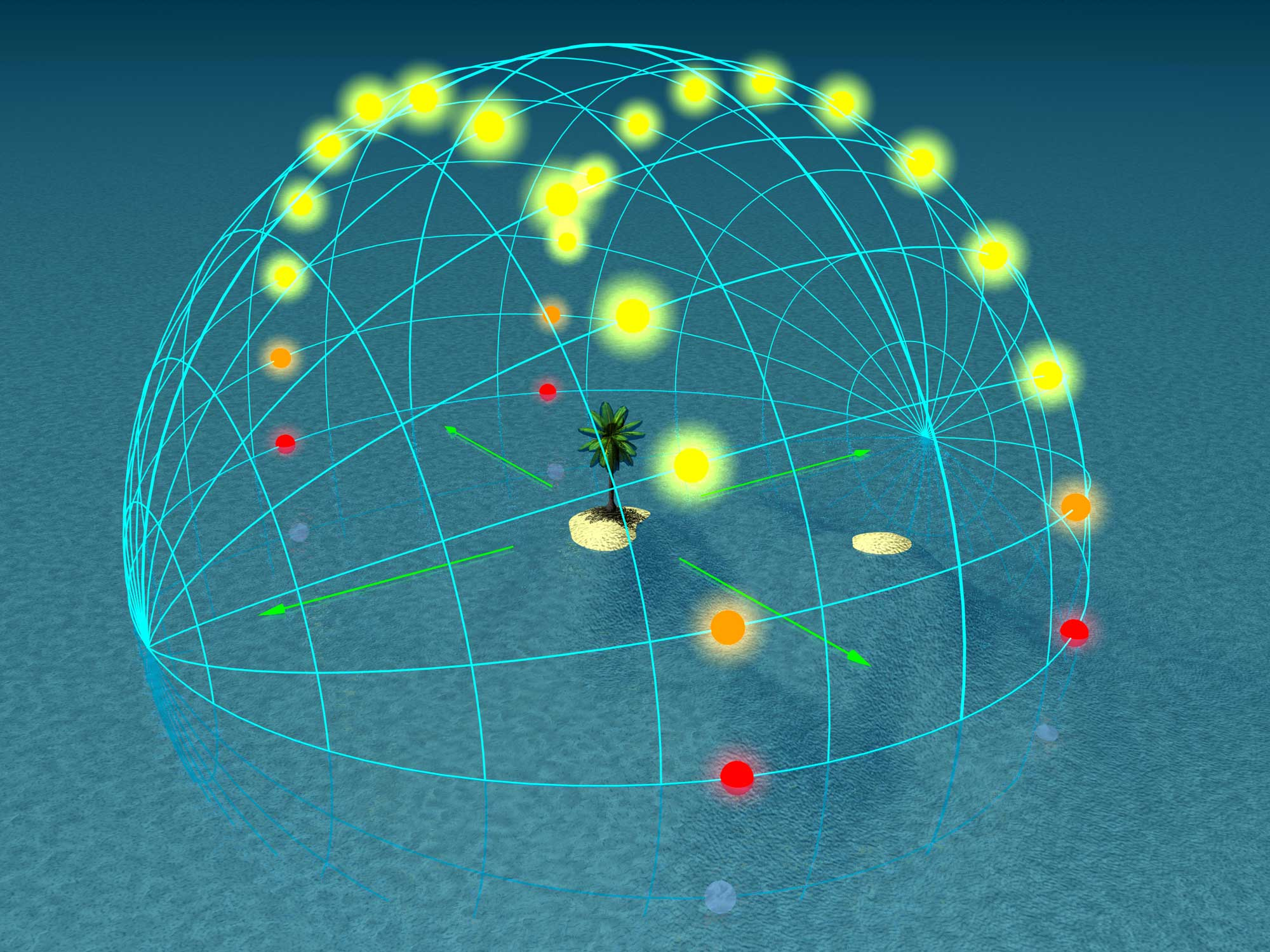 The day arc of the Sun, every hour, in the two solstices as seen on the celestial dome, from the equator. Also showing 'twilight suns' down to -18° altitude.